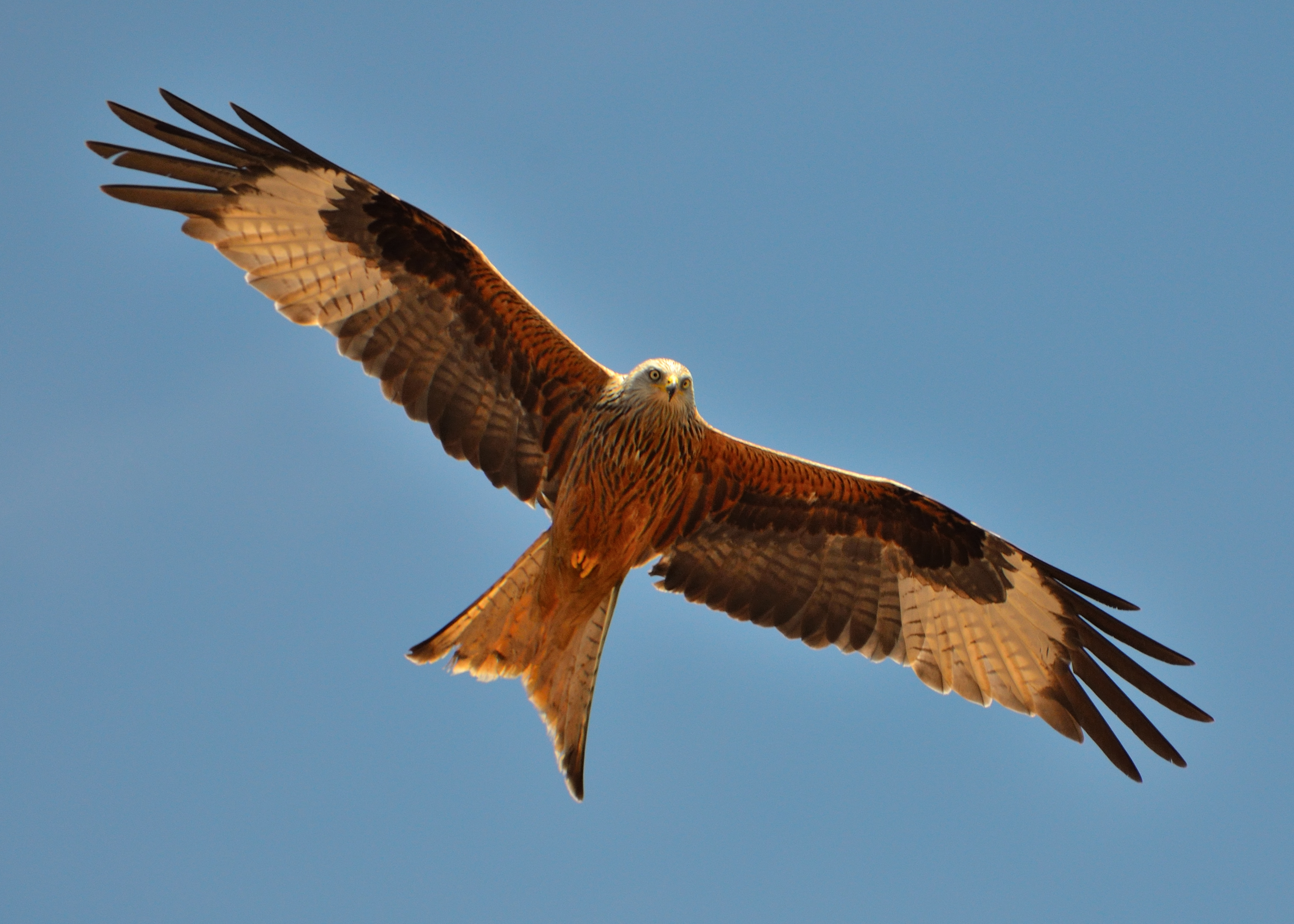 Red Kite (Milvus milvus), Jura, Switzerland.